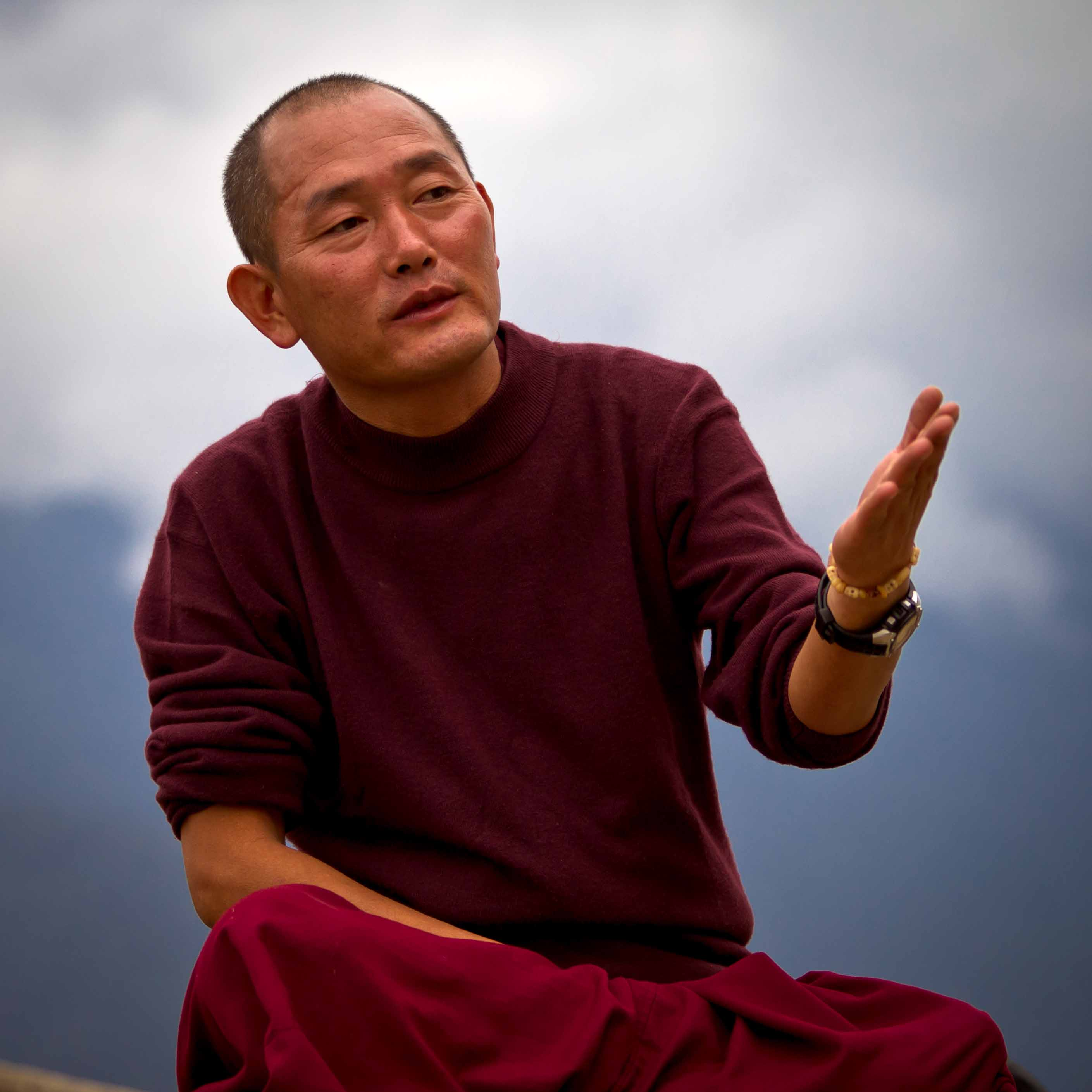 Photo of Sherub Wangchuk, the Principal of Nalanda Buddhist Institute (NBI) — in the Punakha District, central Bhutan. Taken in 2011 at NBI when he was Vice Principal. By Lis Magnus.